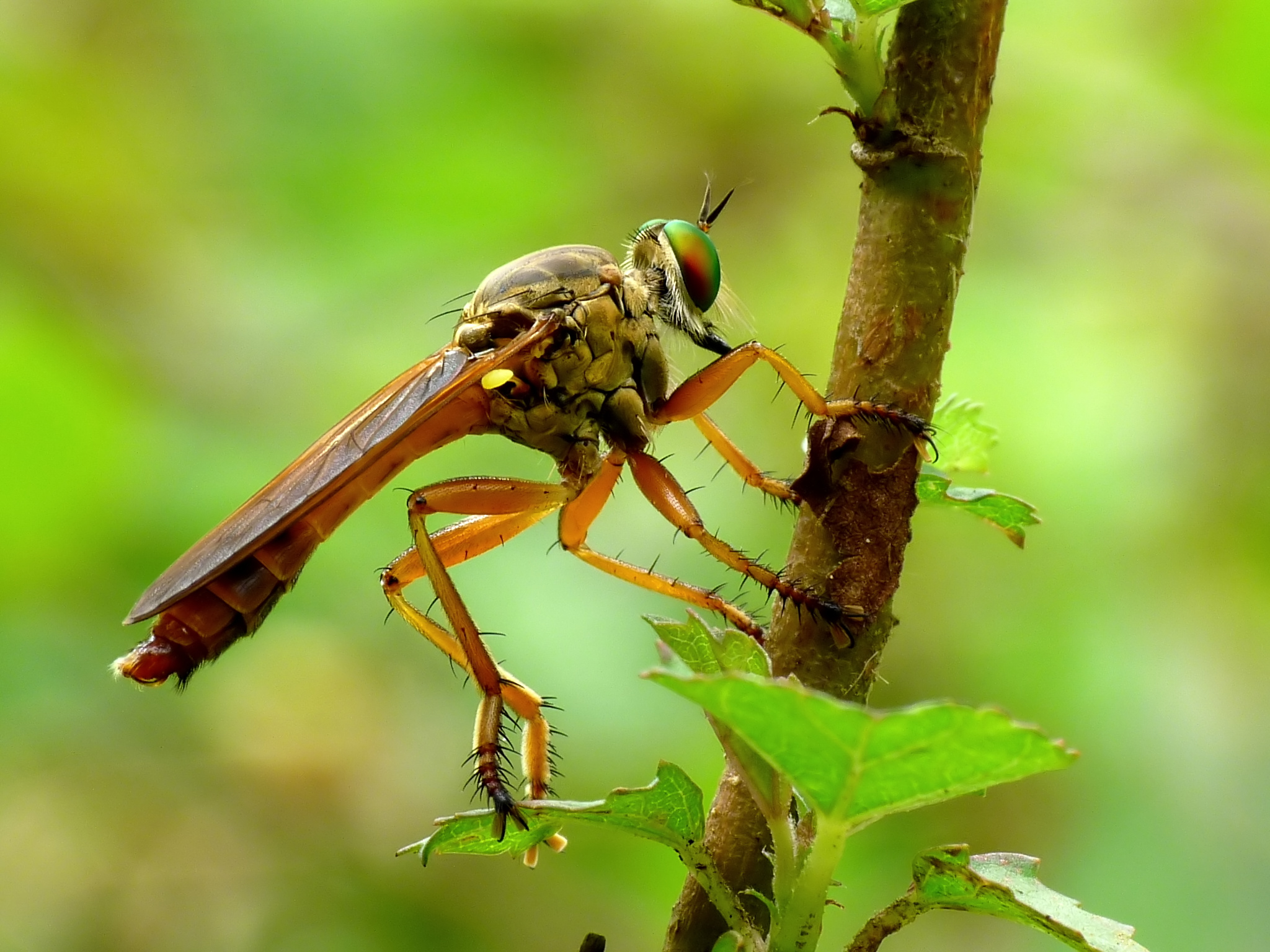 Michotamia aurata, male. Insects in the Diptera family Asilidae are commonly called robber flies. The family Asilidae contains about 7,100 described species worldwide. Taken at Kadavoor, Kerala, India. Identified by Eric Fisher at